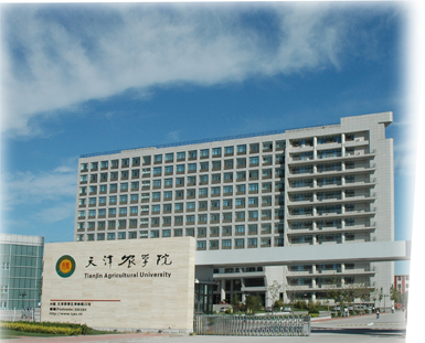 the main building of tjac